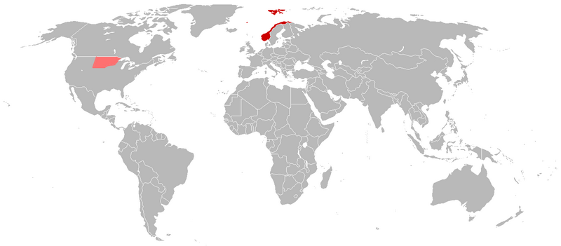 Areas where Norwegian is spoken, including North Dakota (0.4% of the population speaks Norwegian there) and Minnesota (0.1% of the population) (Data: U.S. Census 2000).